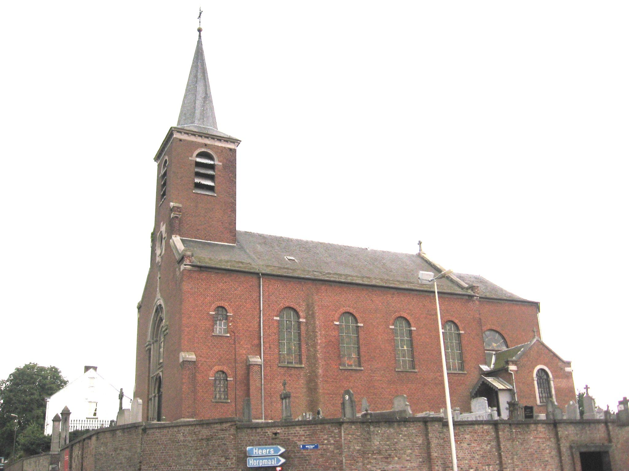 Church of the Assumption of the Blessed Virgin Mary in Heks, Heers, Limburg, Belgium